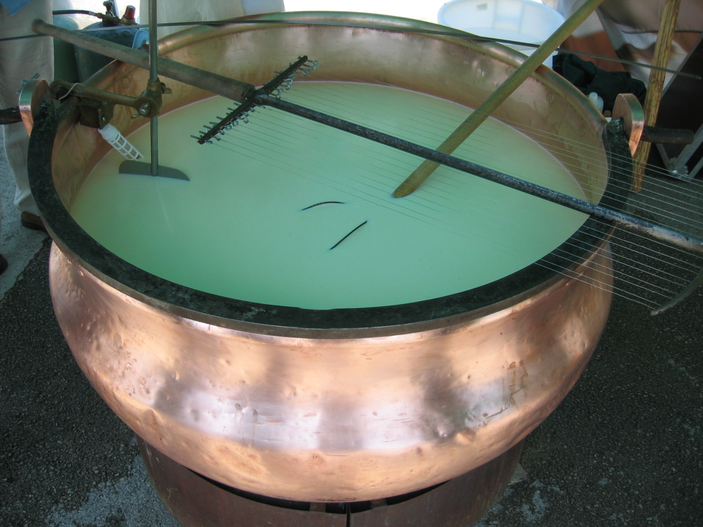 Production of Comté cheese